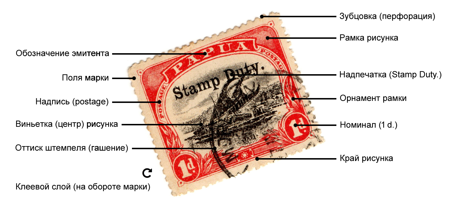 Postage stamp elements on the 1901 Papua stamp (in Russian)